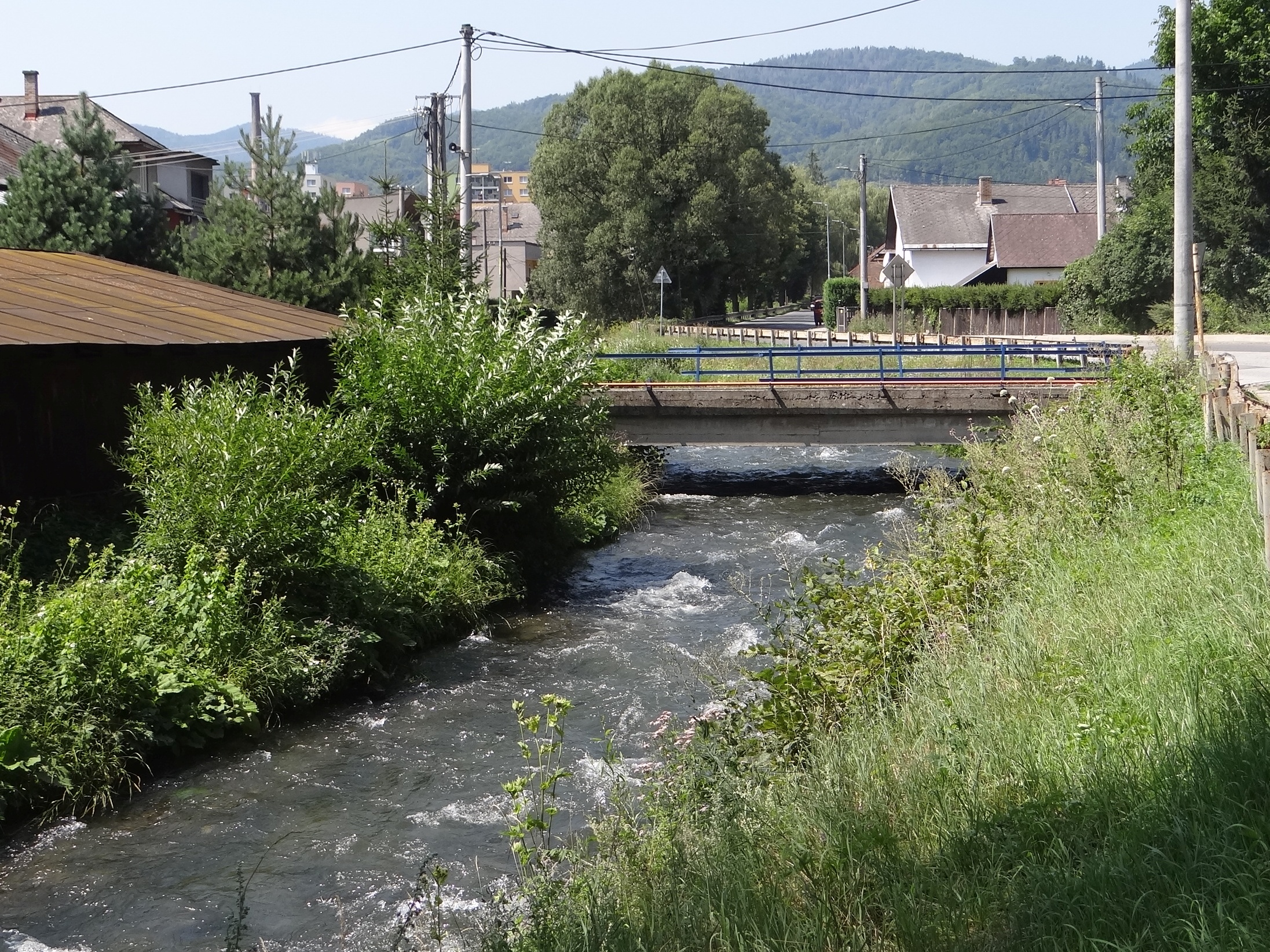 Dobšinský potok